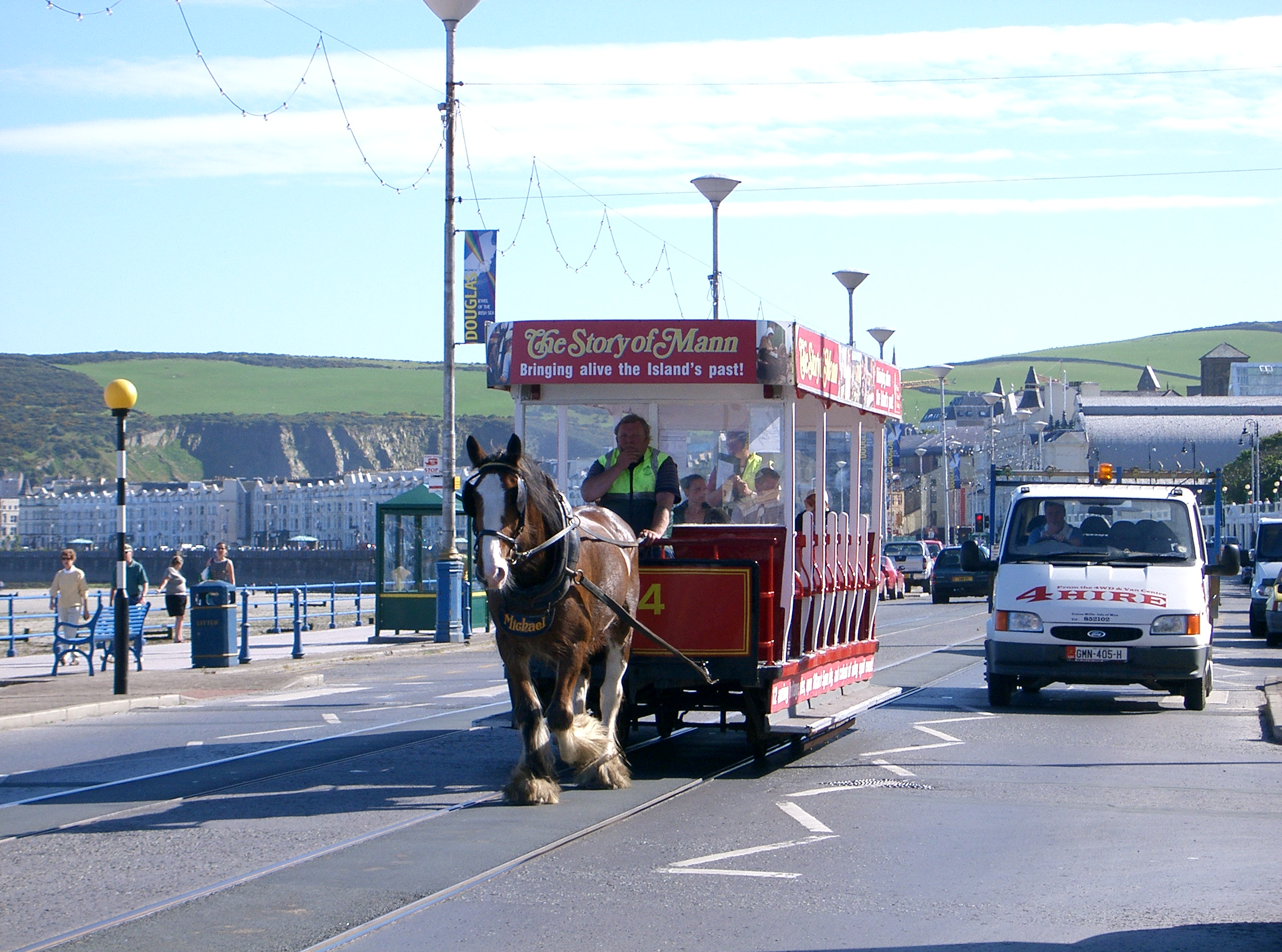 Horse tram 34 passes a pedestrian crossing. Douglas, Isle Of Man. Photographed by SP Smiler